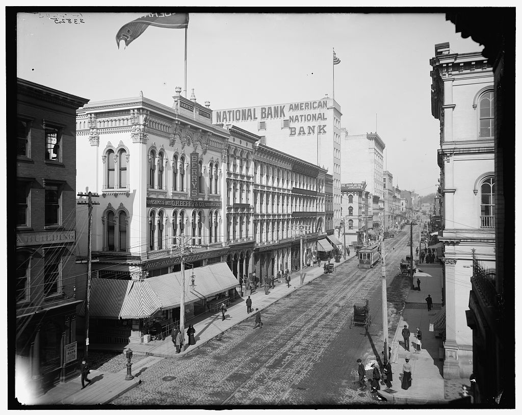 Main Street, Richmond, Virginia, ca. 1905 (looking west). From Library of Congress collection.